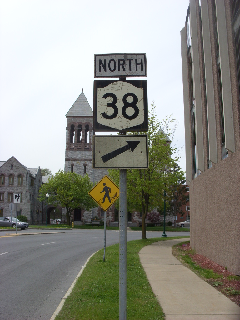 Old signage for NY 38 in the city of Auburn, New York.